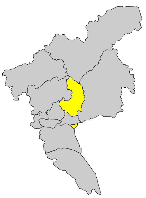 Location of Luogang District, Guangzhou